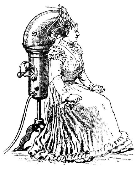 From 1900 Encyclopedie Larousse Illustree.